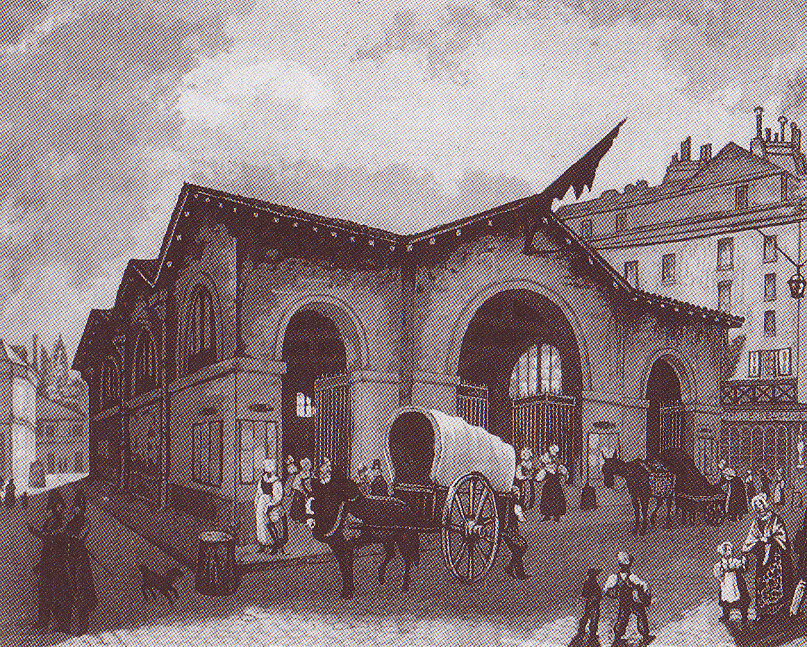 Marché des Blancs-Manteaux in Paris circa 1820